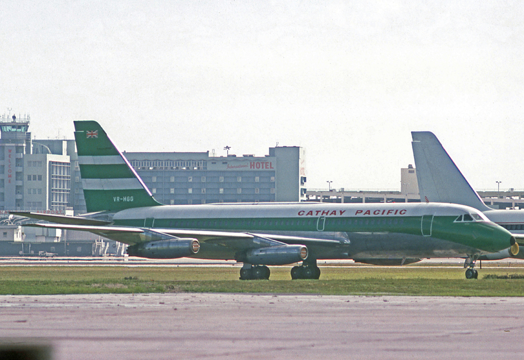 Convair 880 VR-HGG of Cathay Pacific at Miami Airport in 1975